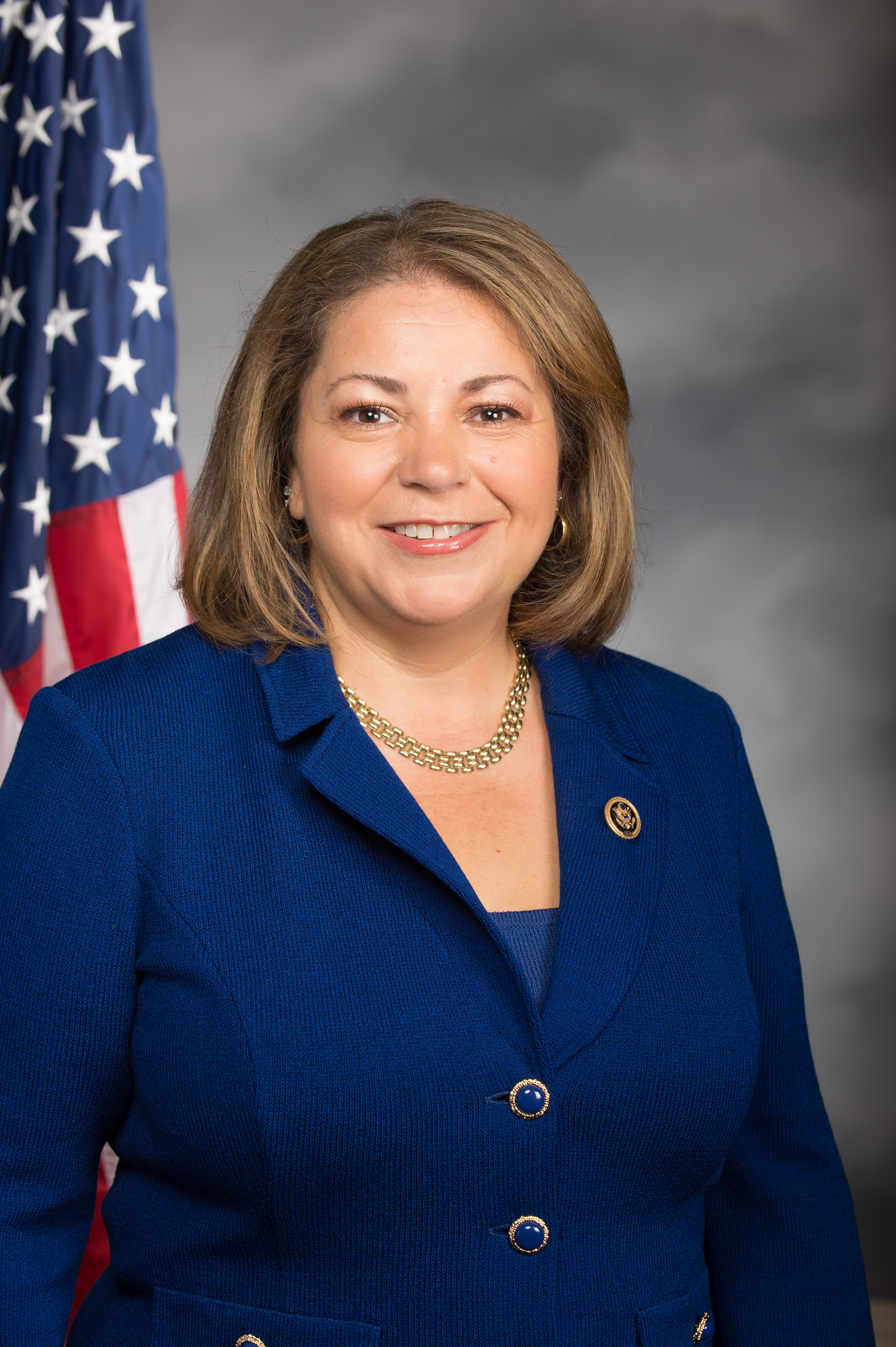 Linda Sánchez official photo